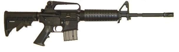 AR-15 rifle